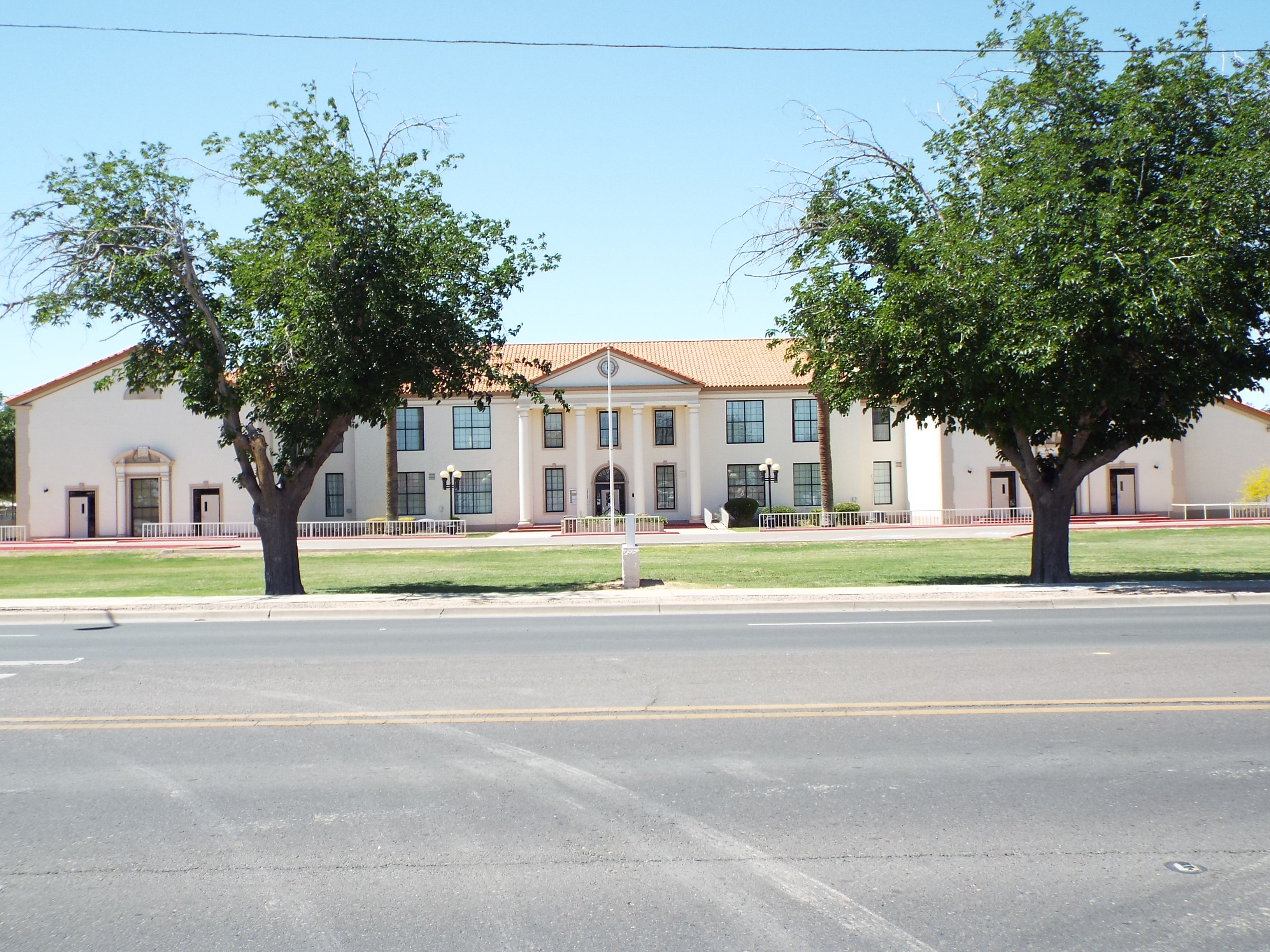 The original Coolidge High School was built in 1939 and is located at 450 N. Arizona Blvd. in Coolidge Arizona The building now houses the offices of the Coolidge Unified School District #23.